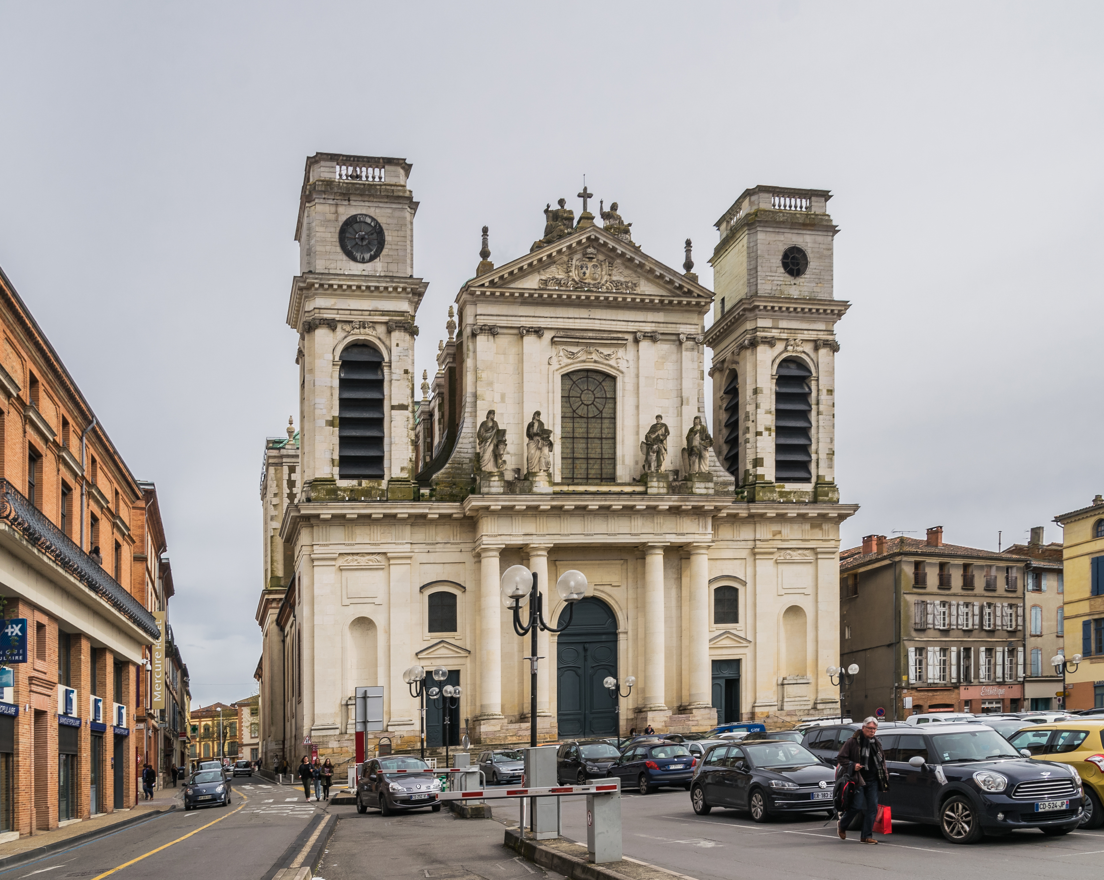 Cathedral of Our Lady of the Assumption of Montauban, Tarn-et-Garonne, France .